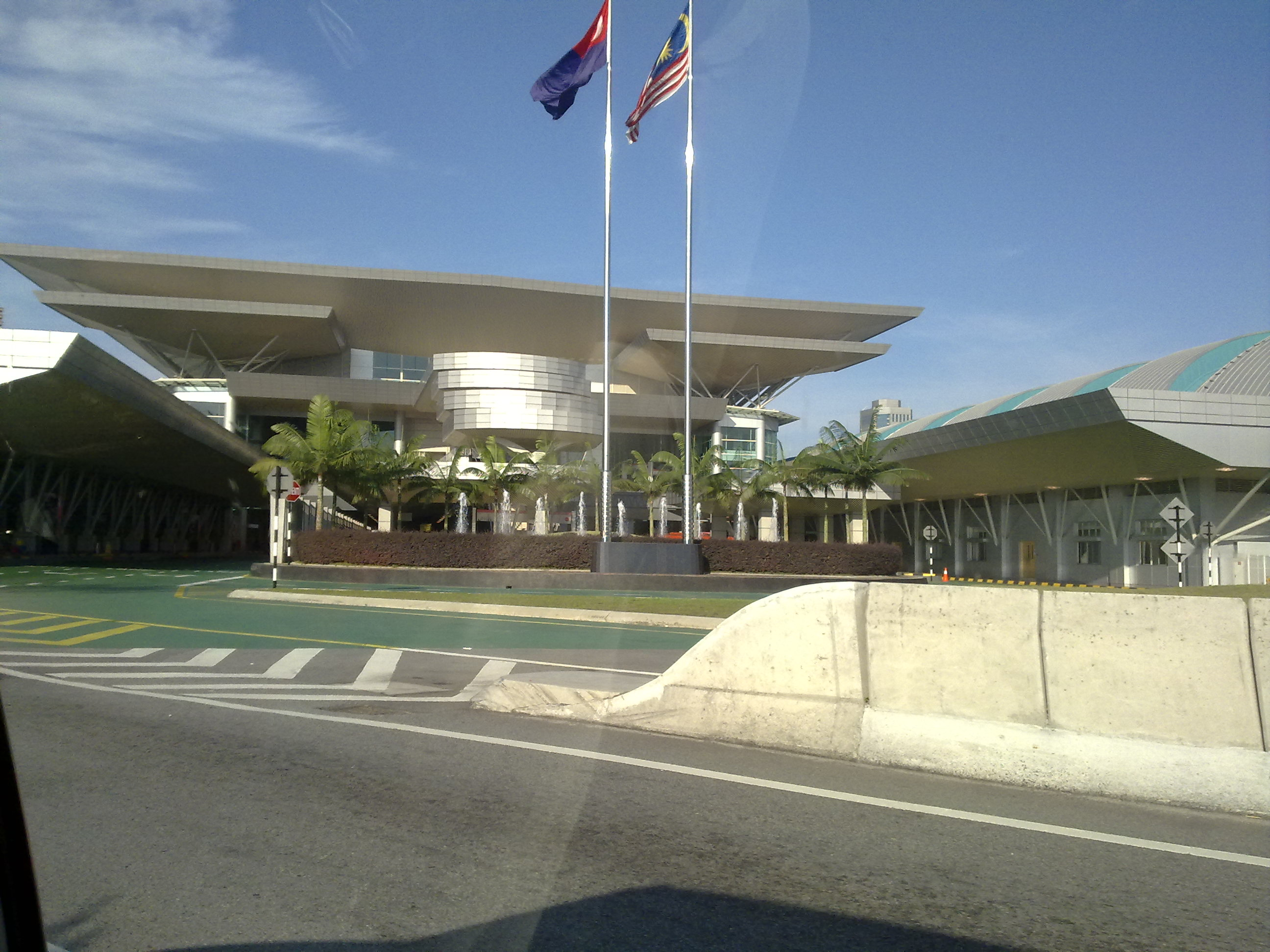 The picture shows the Malaysia's new Custom , Immigration and Quarantine (CIQ) complex which located at Johor Bahru ... This complex also known as Bangunan Sultan Inskandar or Sultan Iskandar Complex...